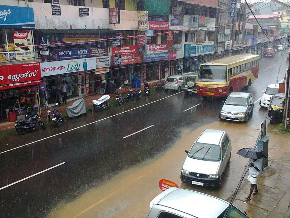 A View of the NH 183 in a Rainy Morning from Kanjirappally Central Junction.